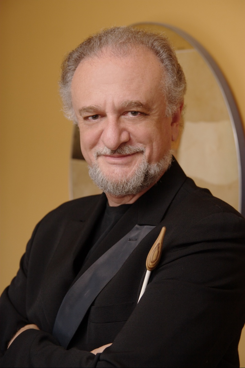 Picture of Eduard Schmieder